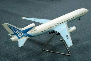 Model of Antonov An-318 see this article and this one too